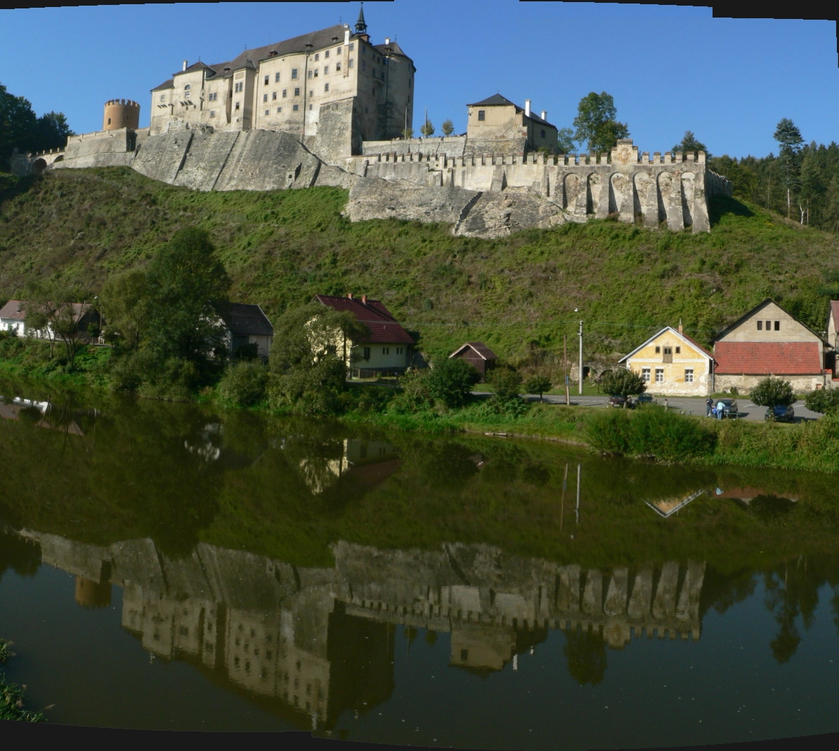 Panorama of castle Cesky Sternberk, Benesov